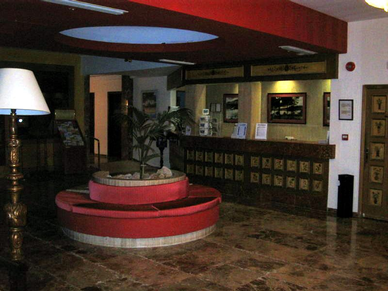 A hotel reception.